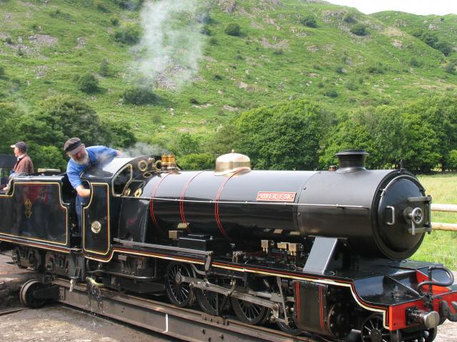 Turning the Train Around at Eskdale (Dalegarth) Station. The station is situated in the upper (west) side of the grid square. Locomotive is River Esk